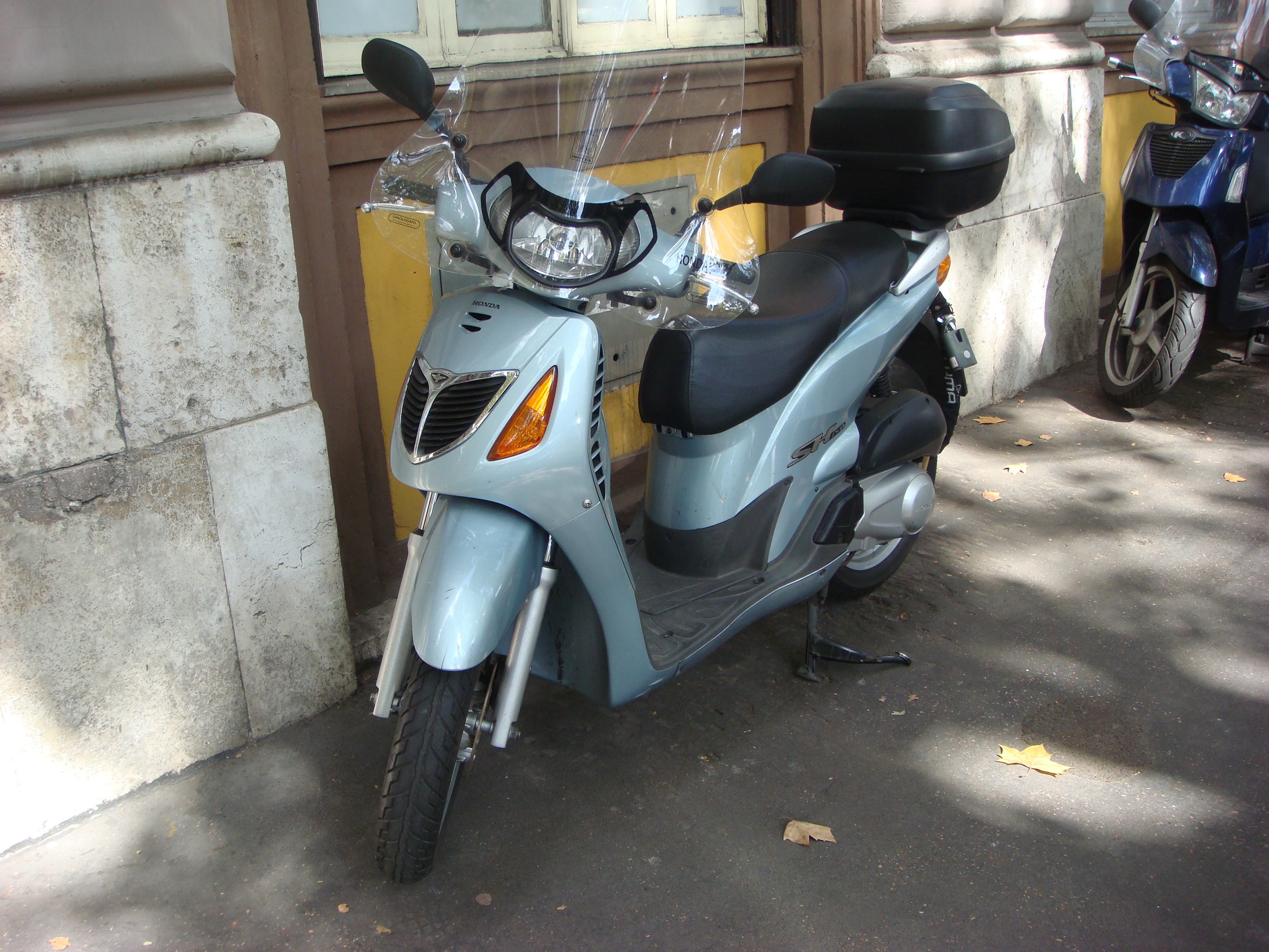 Scooter in Rome / On Via Isonzo off Via Ko, Rome, Italy.